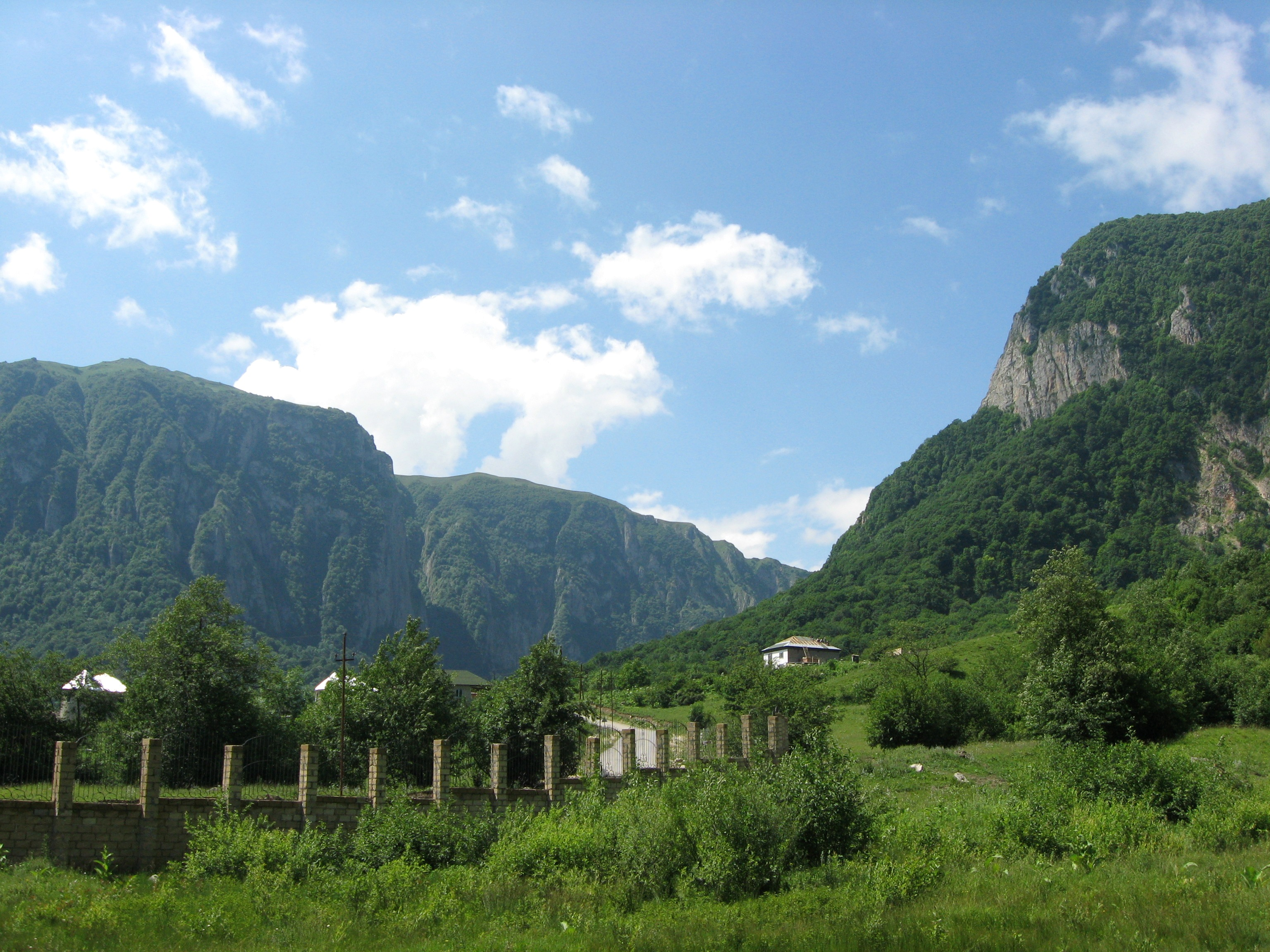 Nature of Azerbaijan